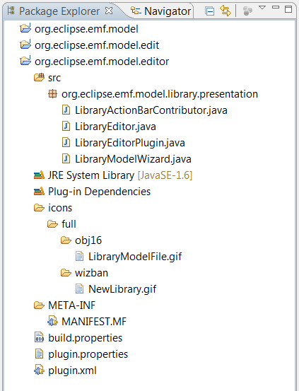 Screenshot of the code generated by the open source software EMF.